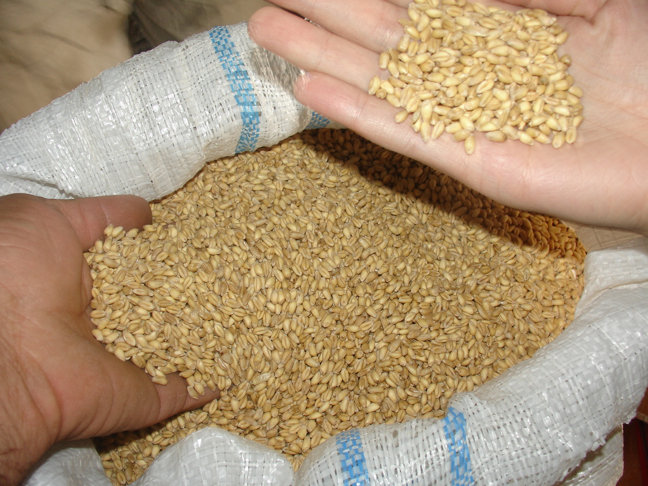 Barley in a sack.